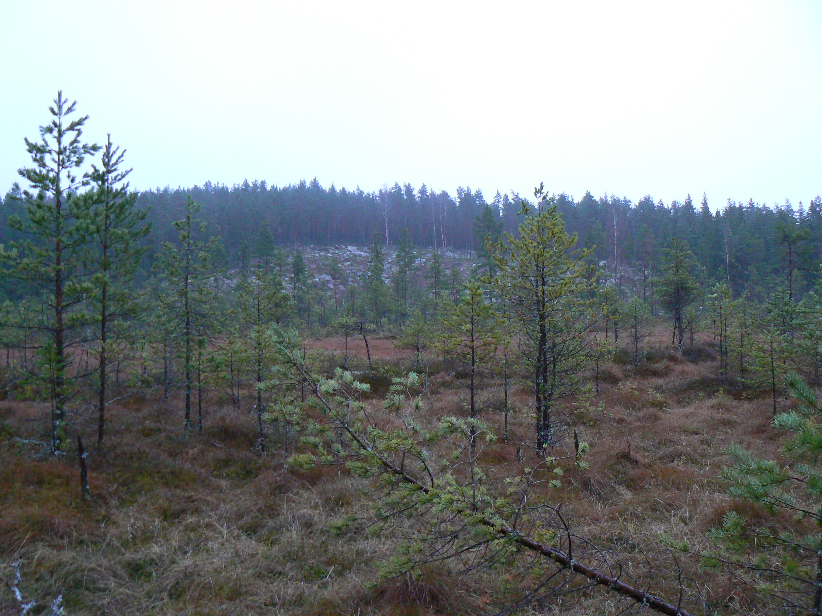 Långtäktsberget (The Långtäkt "mountain") from west. Photo by Skvattram 2006-11-25.